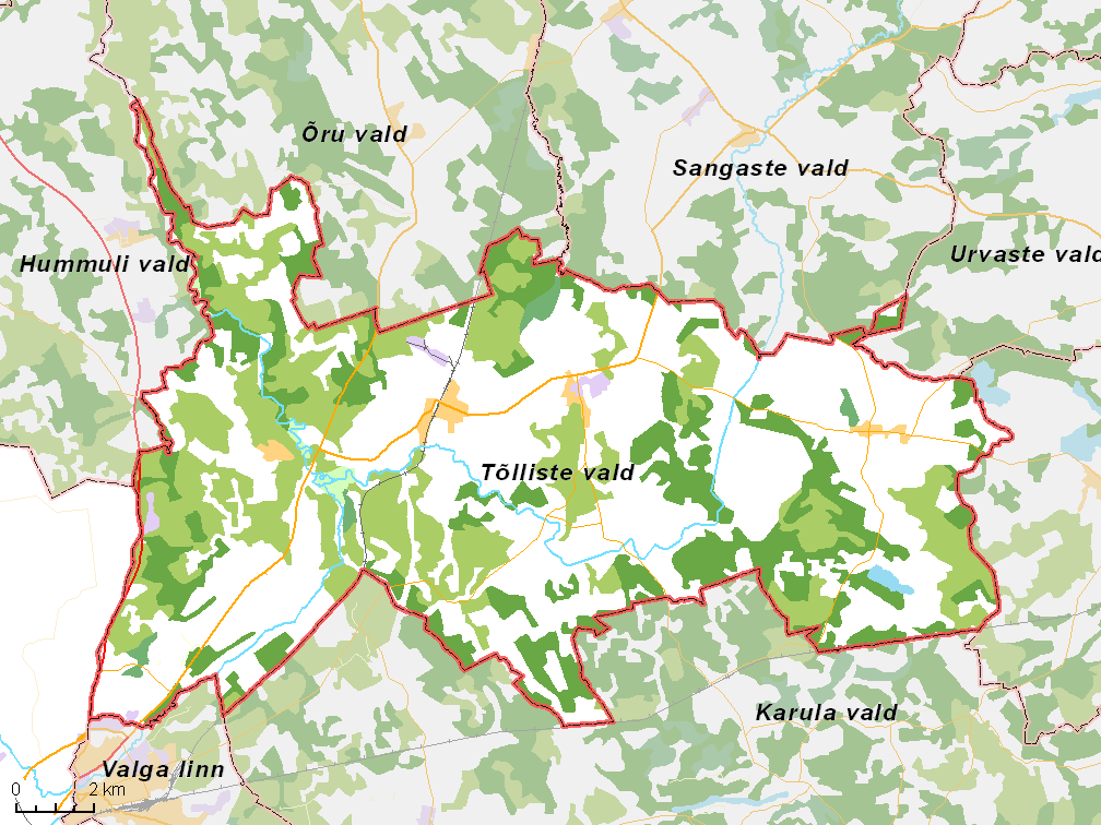 Map of municipality in Estonia